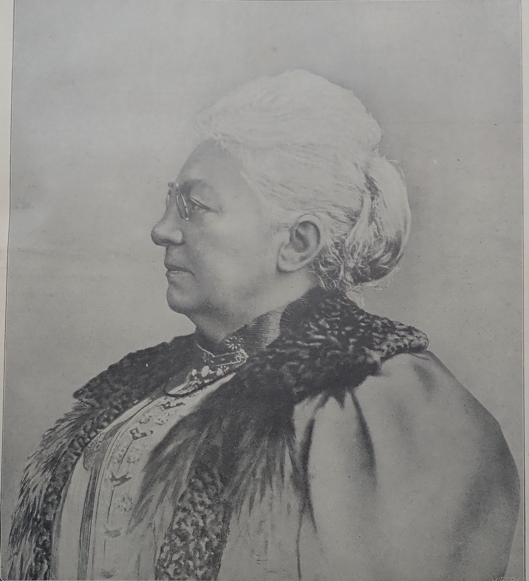 portrait of Virginie Loveling as published on the cover of a march edition of De Prins der Geïllustreerde Bladen in 1912